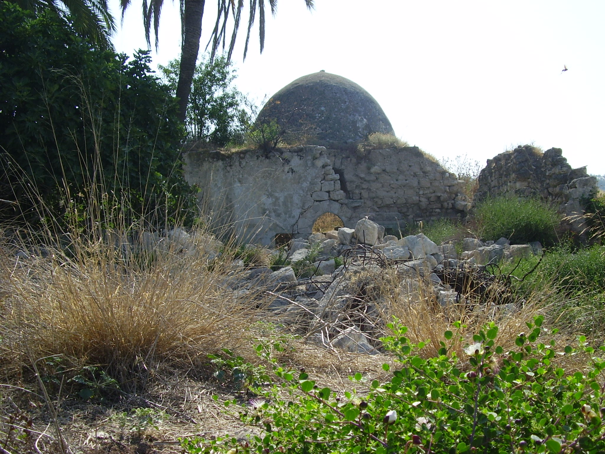 Tomb of a Sheikh in Bassa